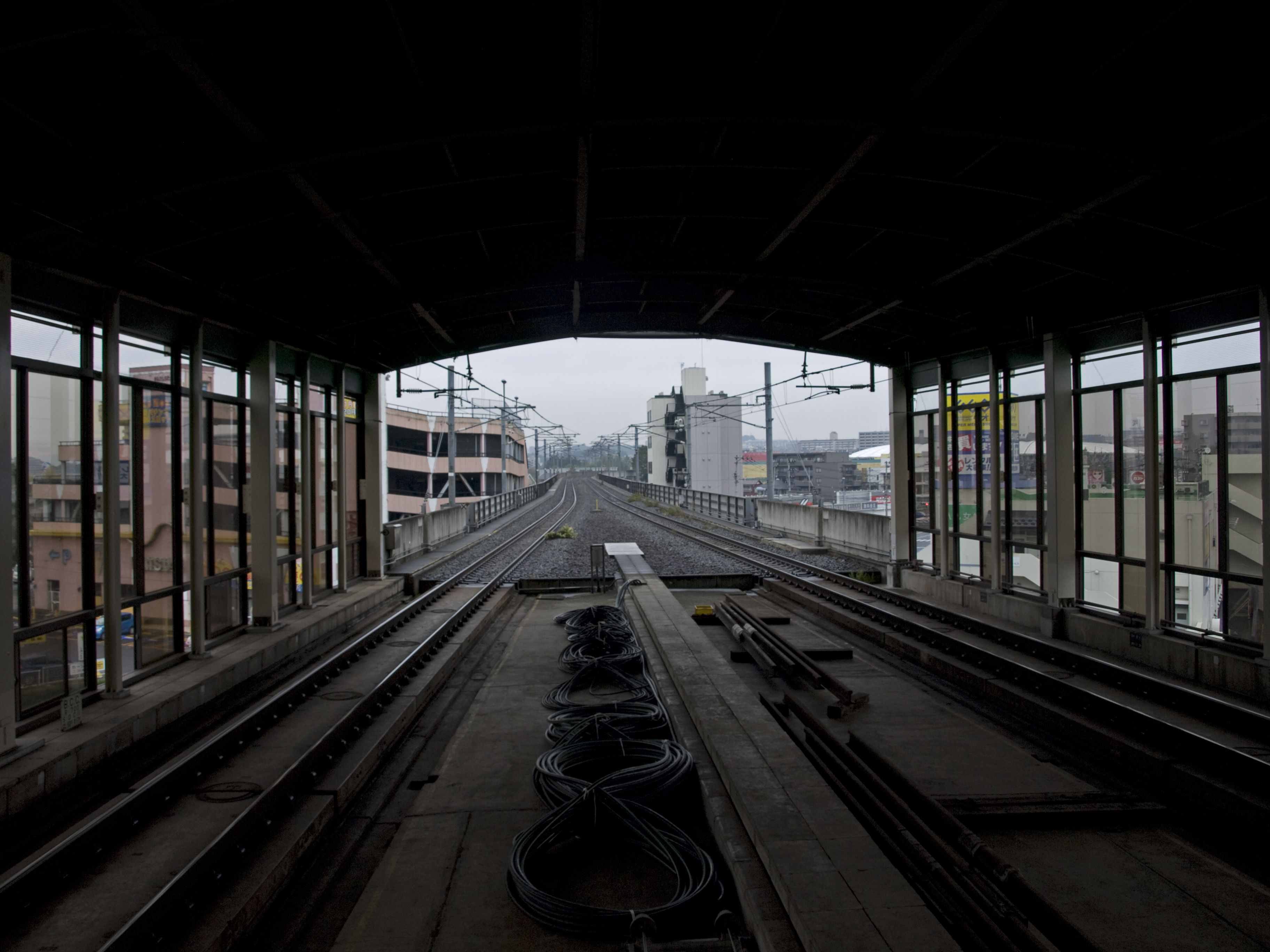 Traks of Sendai Subway Nanboku Line, as seen from Yaotome Station (in the direction of Izumi-Chūō Station)